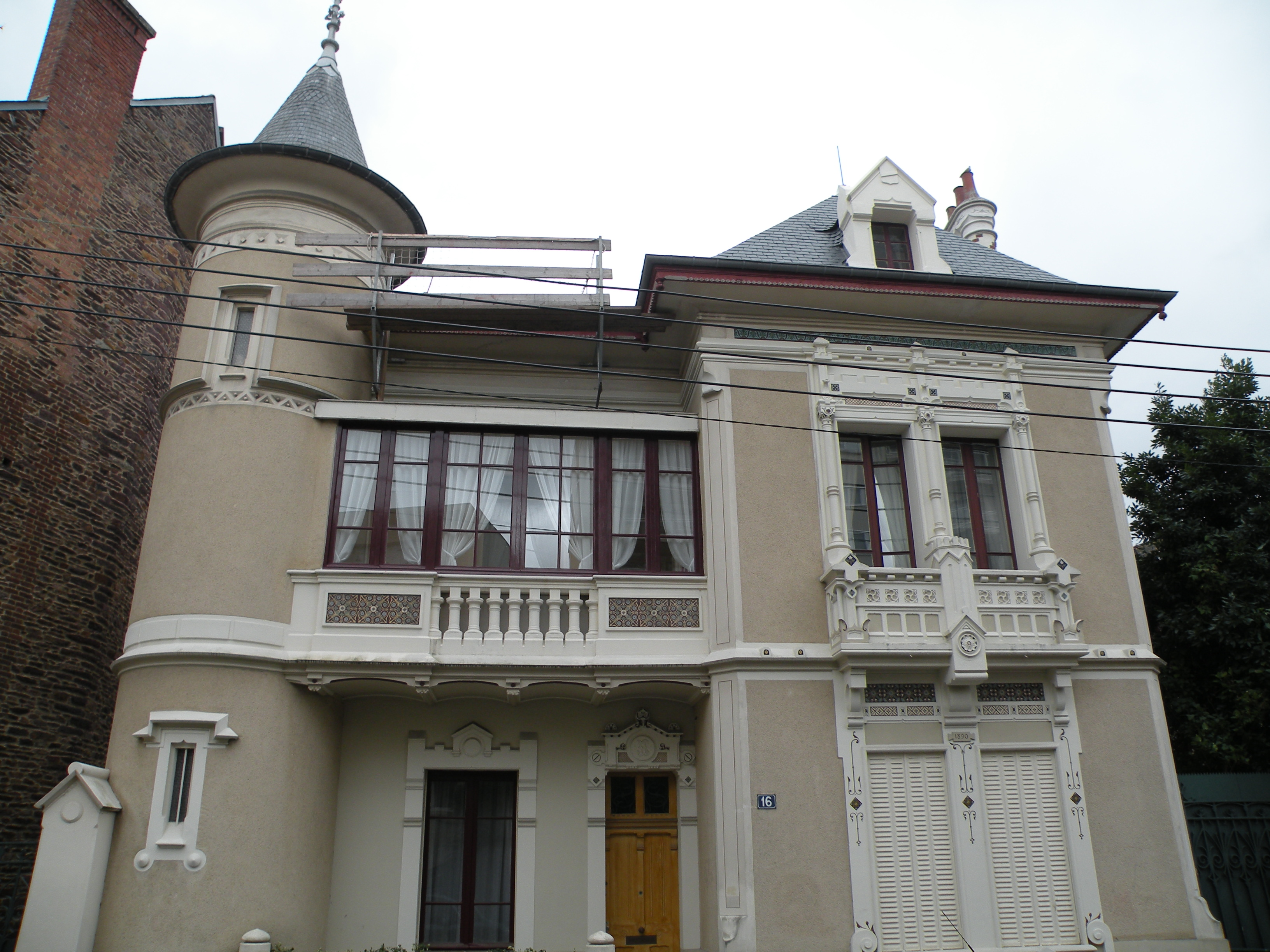 Jean Janvier’s hostel in Rennes.